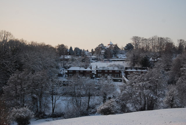 View towards Bidborough